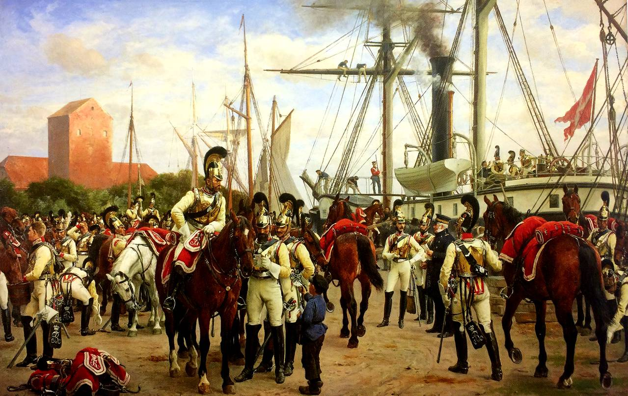 The Royal Danish Horse Guards at the Port of Korsør on the was to the front line in Schleswig during the First Schleswig War in 1848. The picture is painted by Otto Bache and was commissioned as a present to King Christian IX at his 25 years anniversary on 15 November 1888. Christian IX is himself seen in the middle of the picture, talking to Captain Peter Wilhelm Tegner.